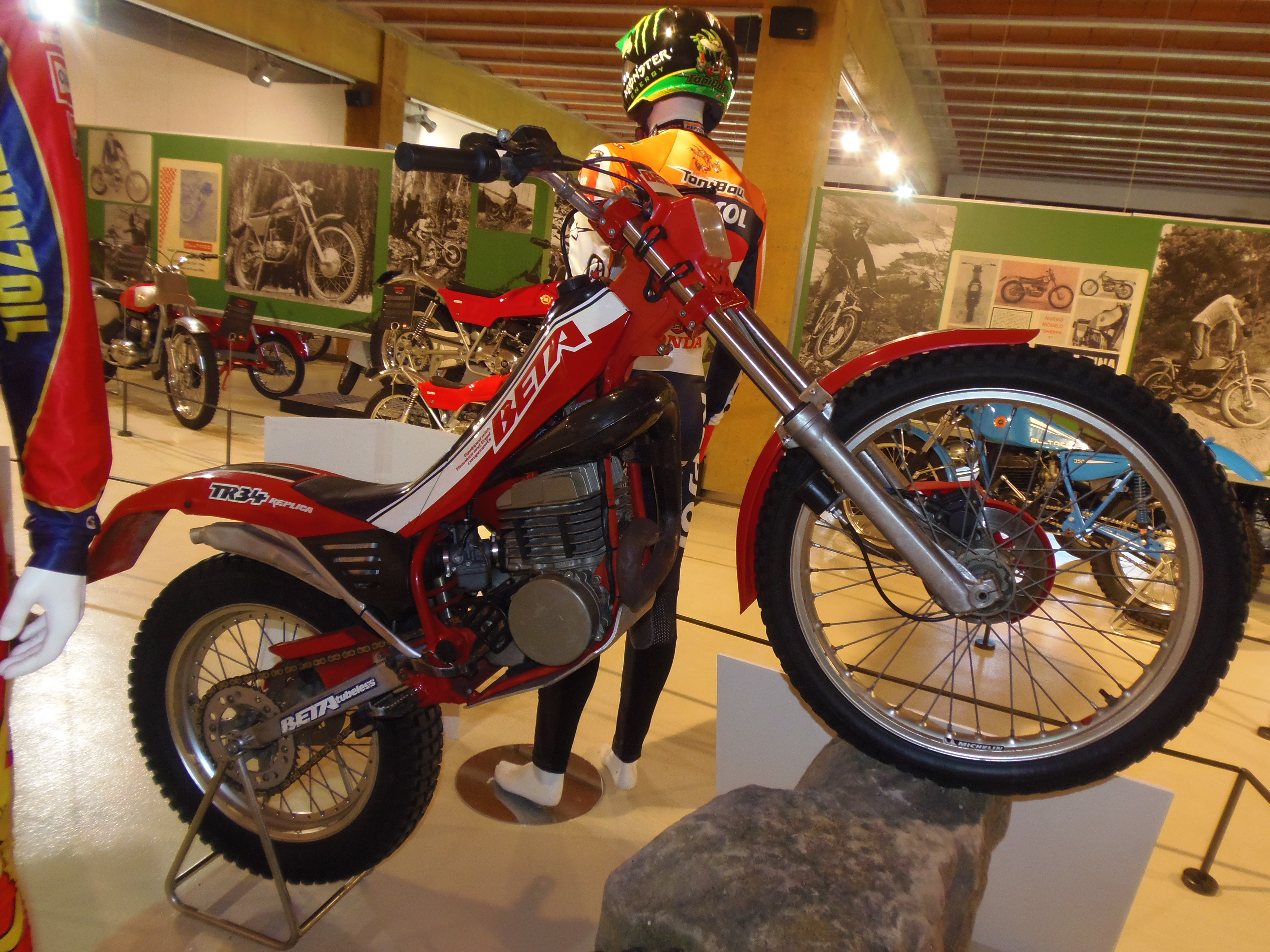 Beta TR 34 (1987), "Jordi Tarrés Replica".